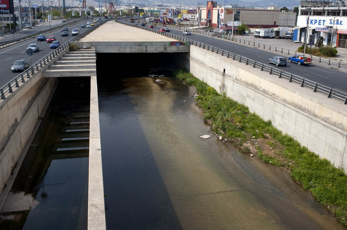 Cephissus (Athenian plain) (Greek Κήφισσος, Kifissós, Kephissós, Kêphissos) river flowing through the Athenian plain. View from the top from a bridge at the highway (Athens-Lamia).